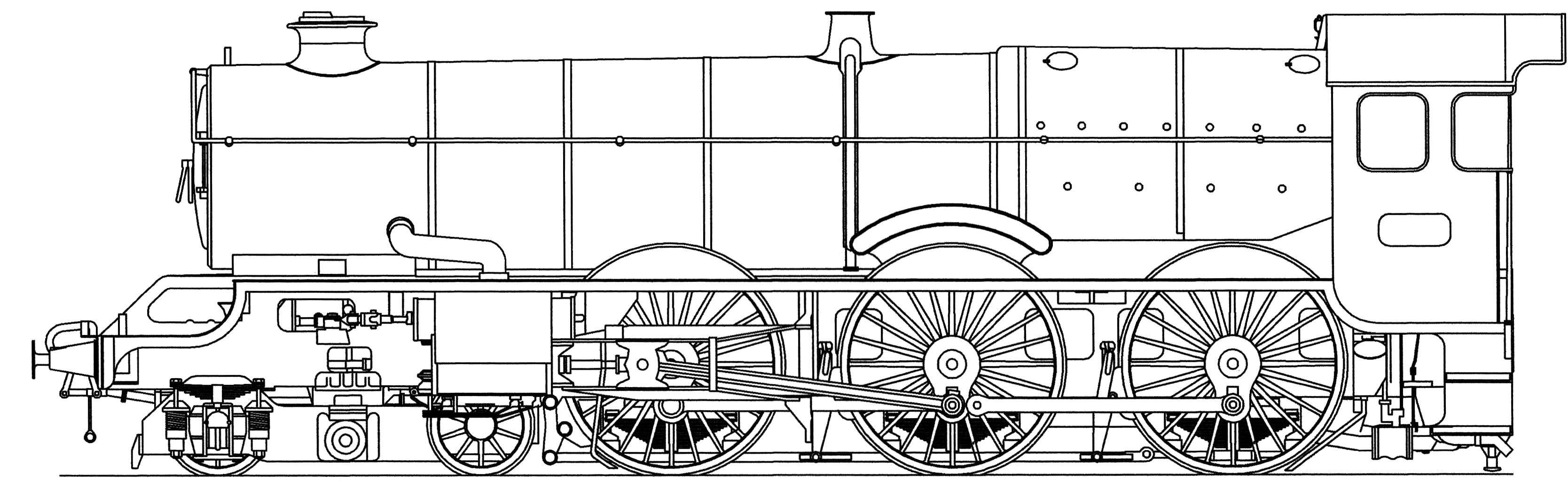 An AutoCAD 2D drawing of a Great Western King steam locomotive drawn by Stavros1 on the 19th September 2007. Image slightly edited for clarity and converted to PNG format.